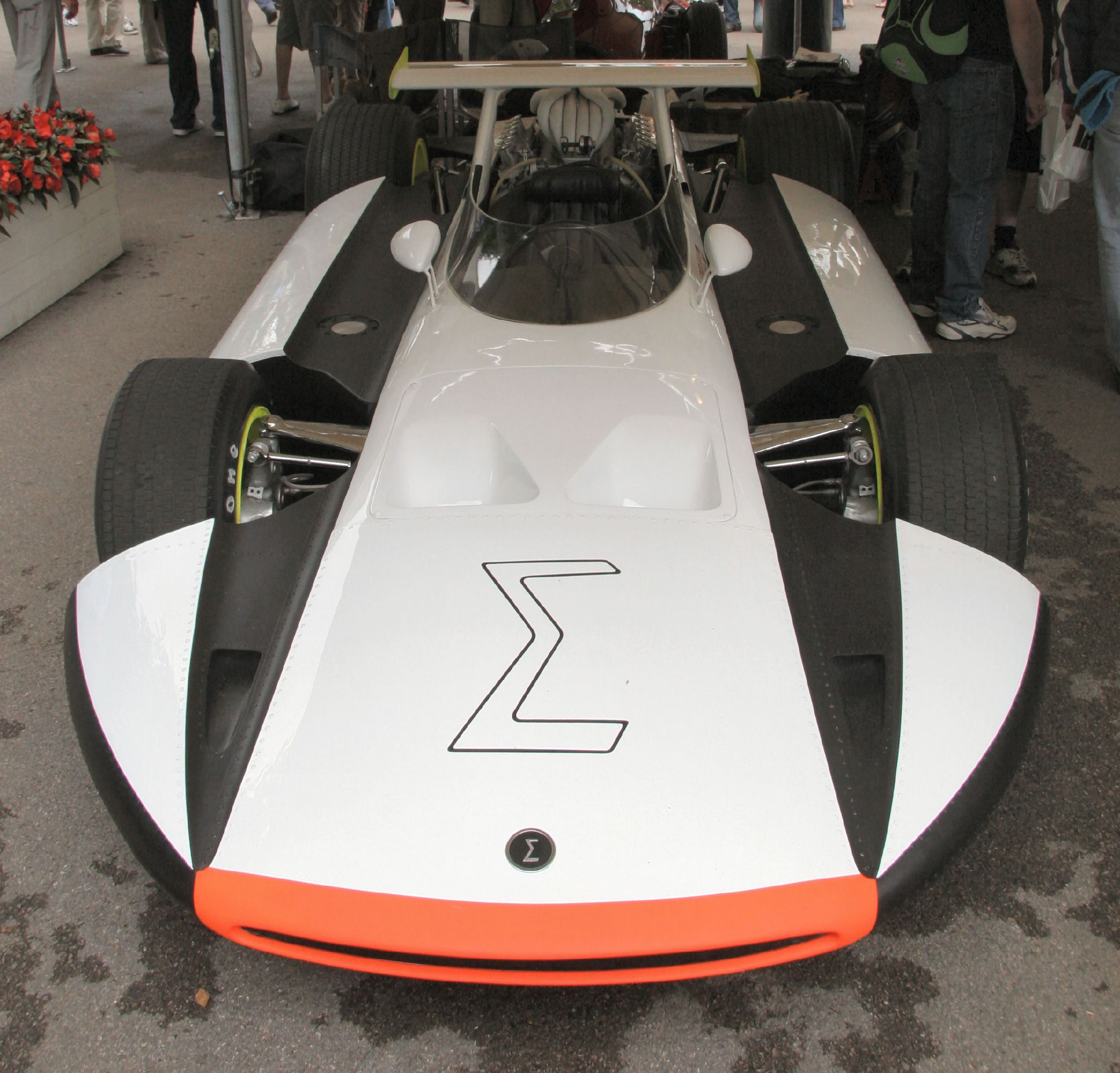 Pininfarina Sigma Concept Car with a Ferrari engine